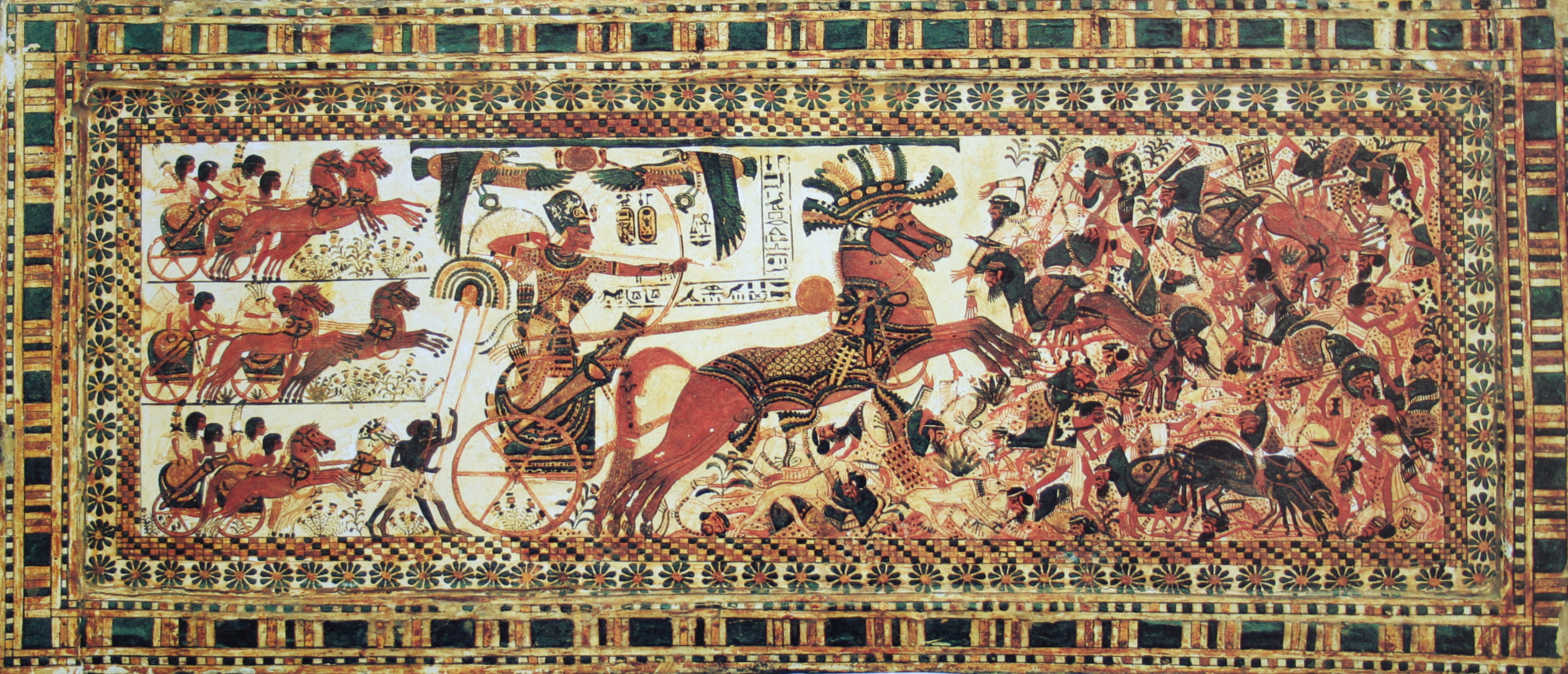 The Pharaon Tutankhamun destroying his enemies. Painting on wood, length: 43 cm. Egyptian Museum of Cairo.